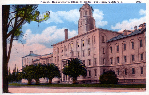 "Female Department, Stockton State Hospital, Stockton." Stockton State Hospital was California's first state psychiatric hospital, established in 1853. It was closed in 1996 and has since been converted into a campus for California State University.